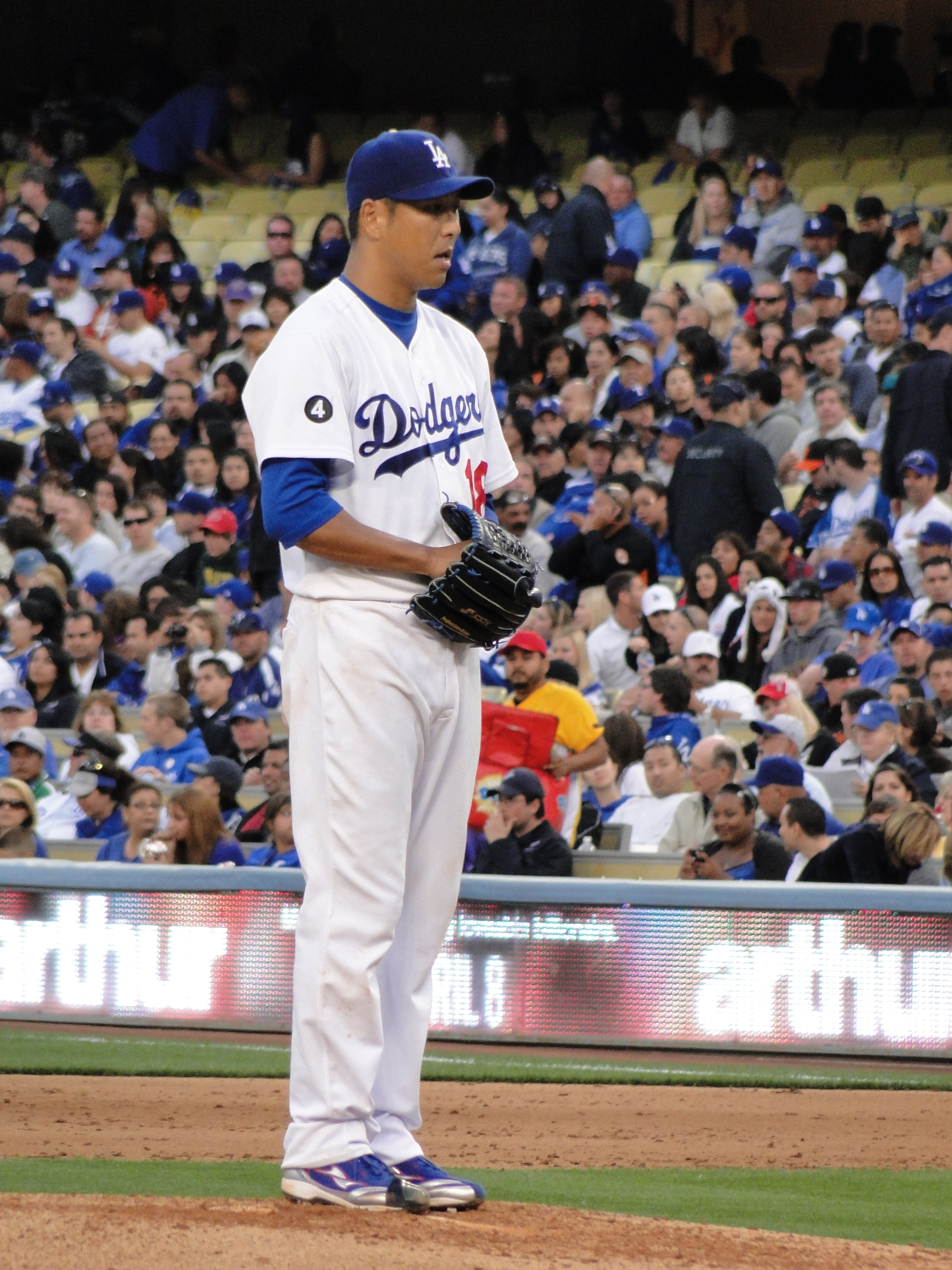 Photograph of Hiroki Kuroda on pitcher's mound at Dodger Stadium.